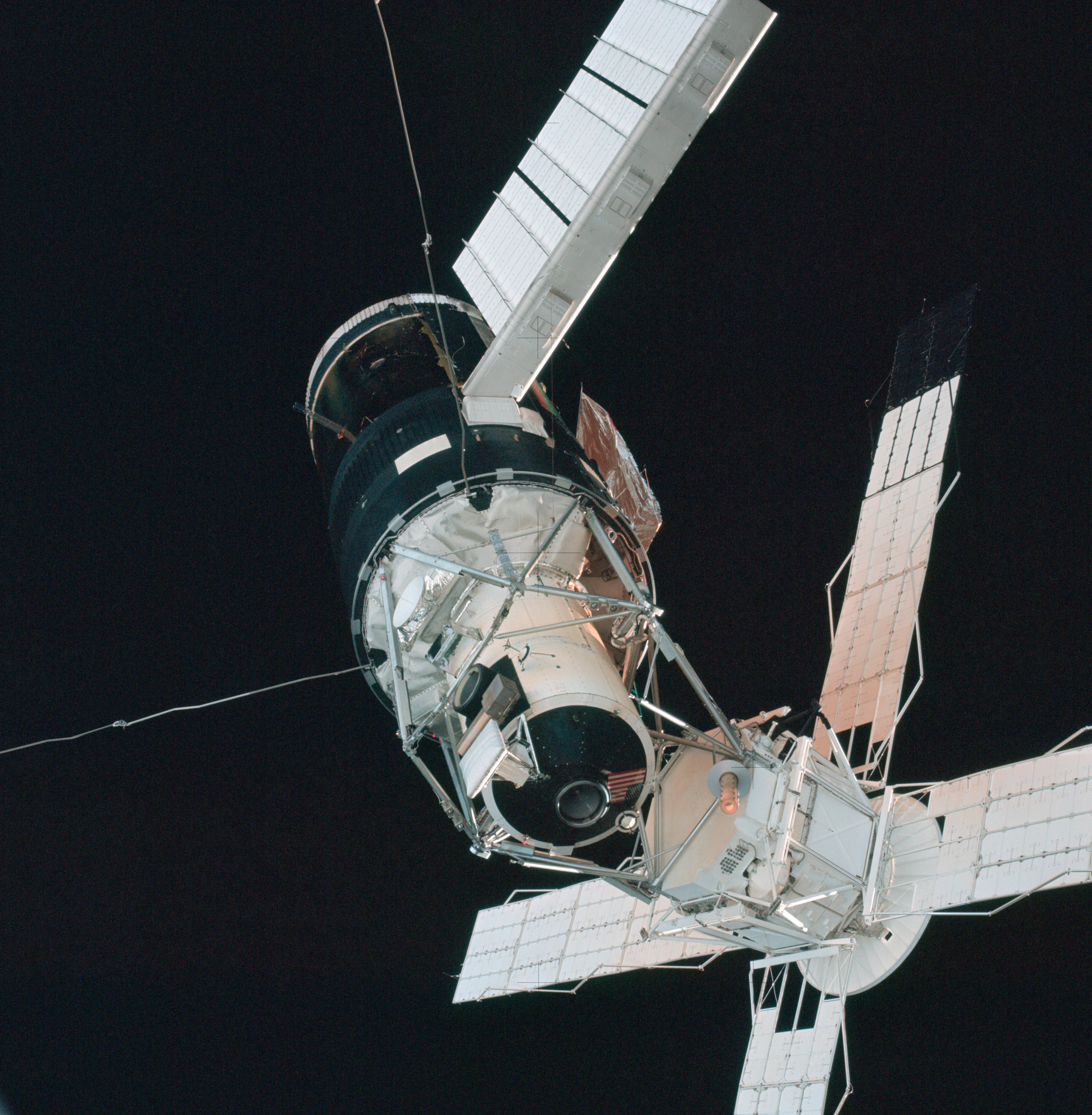 Skylab 3,Skylab views during rendezvous and flyaround. View from underneath Skylab showing external Earth Resources Experiments Package (EREP) sensor packages and antennae.